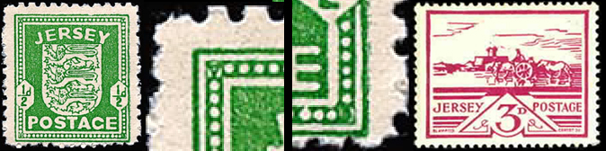 Postage stamps of Jersey, 1941 and 1943, 0,5d and 3d